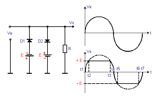 Ecreteur_mixte